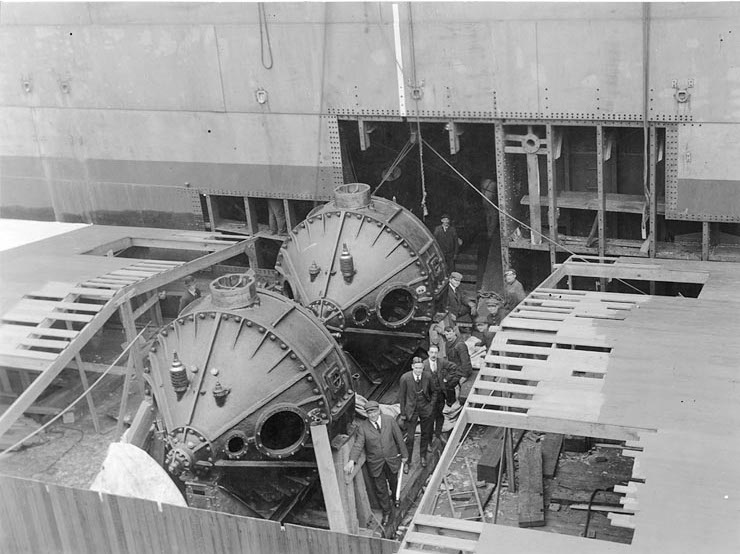 Two enormous gyroscopes being installed in the USS Henderson as a roll stabilizing system during its construction April 1917 at the Philadelphia Navy Yard in World War 1. The Henderson, a transport of 80 ton displacement, was the first large ship to be gyroscopically stabilized to prevent the ship from rolling from side to side with ocean swells. The gyros, built by Sperry Rand, consist of two 25 ton, 9 ft diameter flywheels which during operation are spun at 1100 RPM in opposite directions by 75 HP AC electric motors. Each gyro case is mounted on a vertical bearing which can be turned by a 75 HP servo motor. When a small sensor gyro on the ship's bridge sensed the ship roll, it ordered the servo motor to rotate the gyros about the vertical axis in a direction so the gyro's precession would oppose the ship's roll. During trials they were able to keep the ship roll down to 3 degrees in the roughest seas. This technology was replaced by roll stabilizer fins and is not used today.